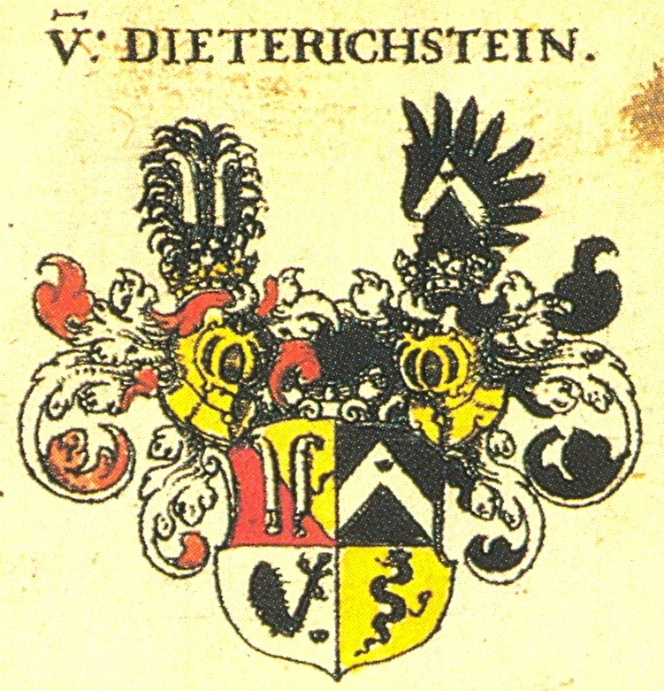 Coat of arms of Dietrichstein family from Siebmachers Wappenbuch